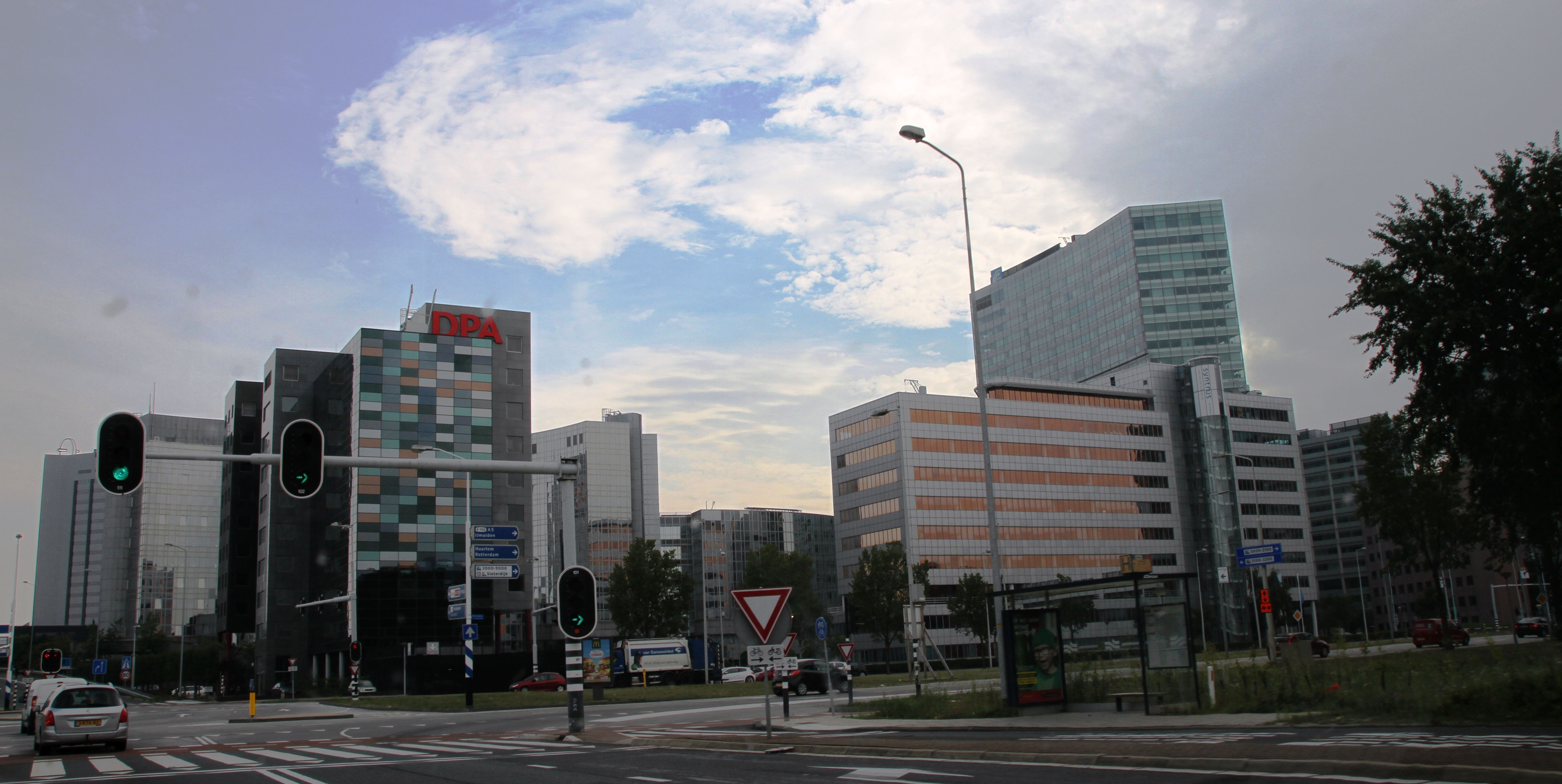 Image from Gatwickstraat, in the Westpoort-Sloterdijk area of Amsterdam, Netherlands. The DPA Group headquarters.